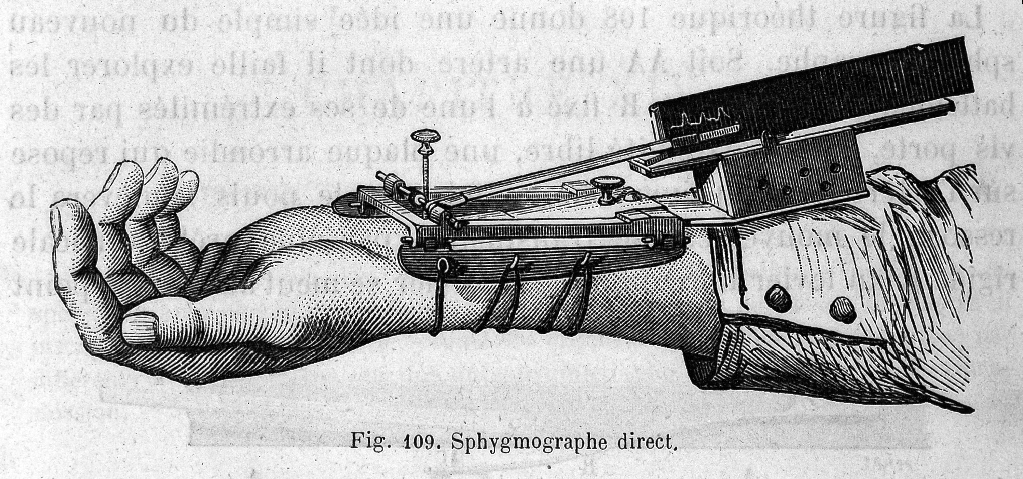 Engraving: direct sphymograph. apparently invented by E.J.Marey, 19th century. General Collections Keywords: Instruments; Measurement; Blood Pressure; Etienne Jules Marey